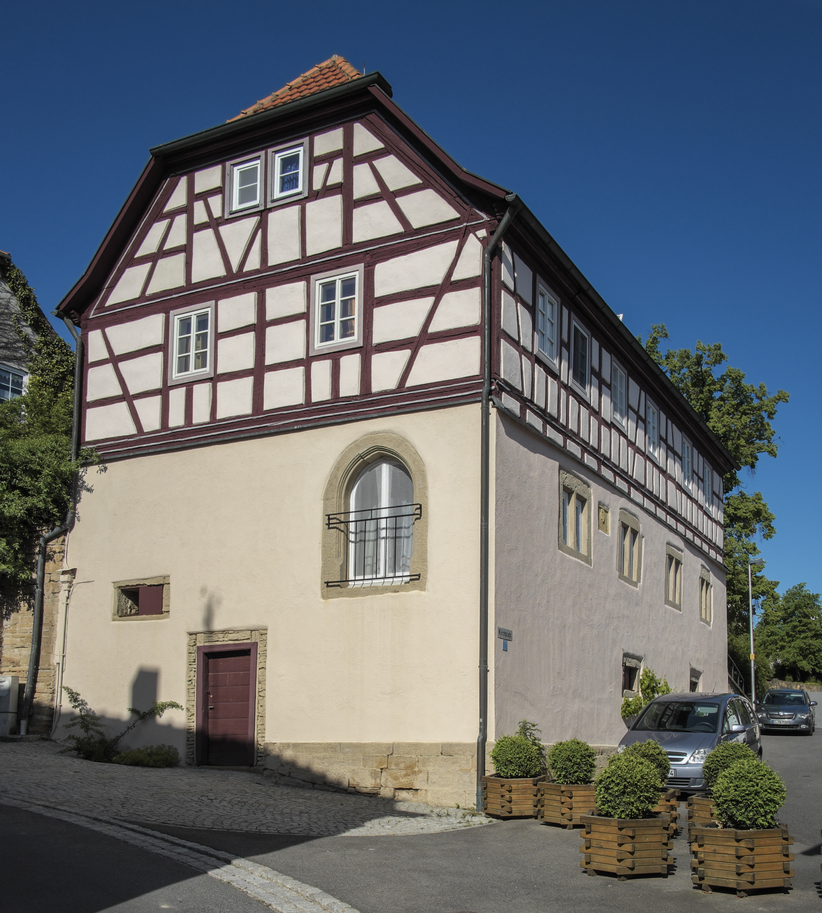 Old town-hall Wülfershausen an der Saale, district Rhön-Grabfeld, Bavaria, Germany